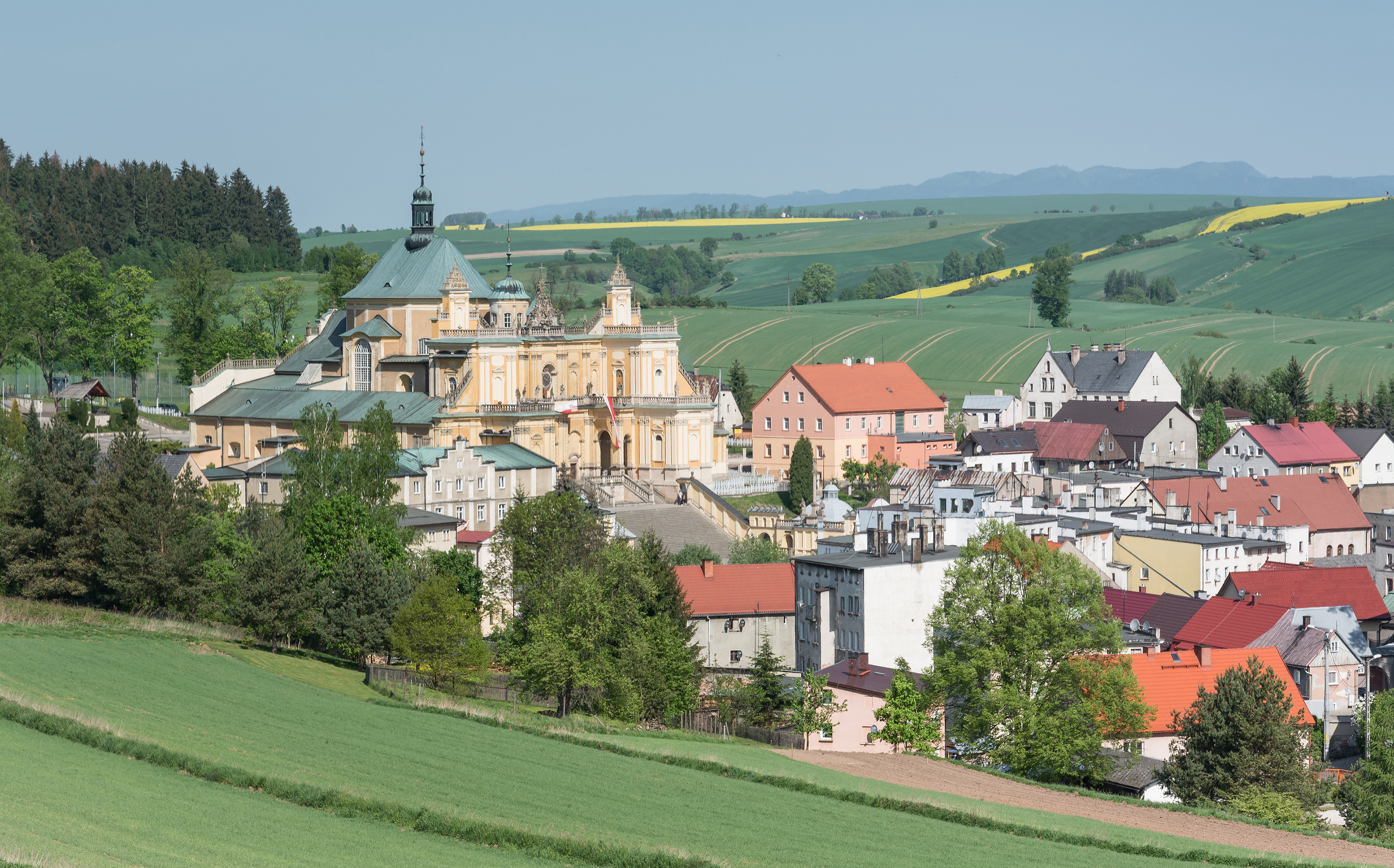 Wambierzyce and basilica of the Visitation Wikidata has entry Q9333670 with data related to this item.